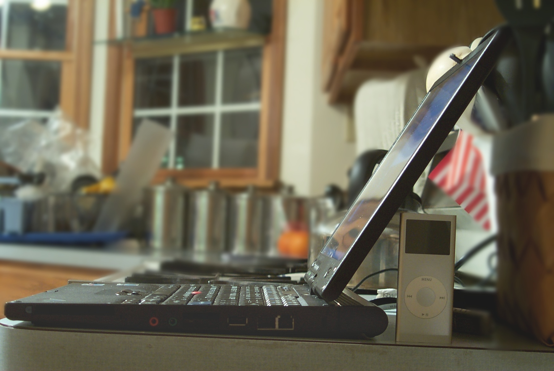 A comparison of the size of an IBM/Lenovo ThinkPad X41 tablet to the size of an iPod Nano. Hopefully useful in the Tablet PC article.